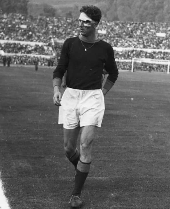 Rome, Stadio dei Centomila ("100,000s' Stadium"). Italian footballer Amos Cardarelli with A.S. Roma in the 1950s.